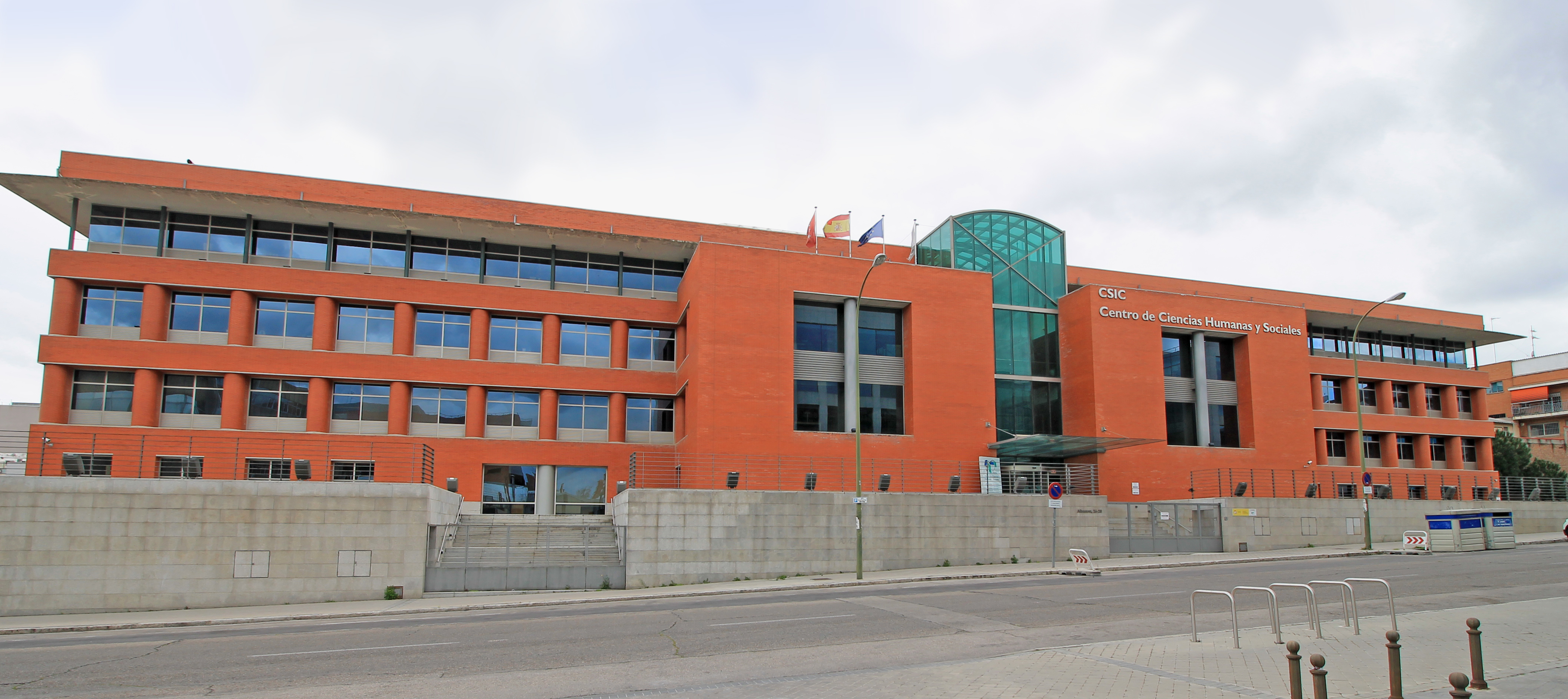 The headquarters of CSIC's Centre for Human and Social Sciences in Madrid (Spain).